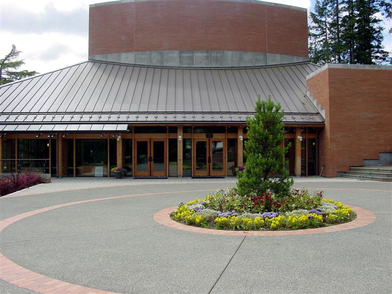 The T. Gil Bunch Theatre, Brentwood College School.